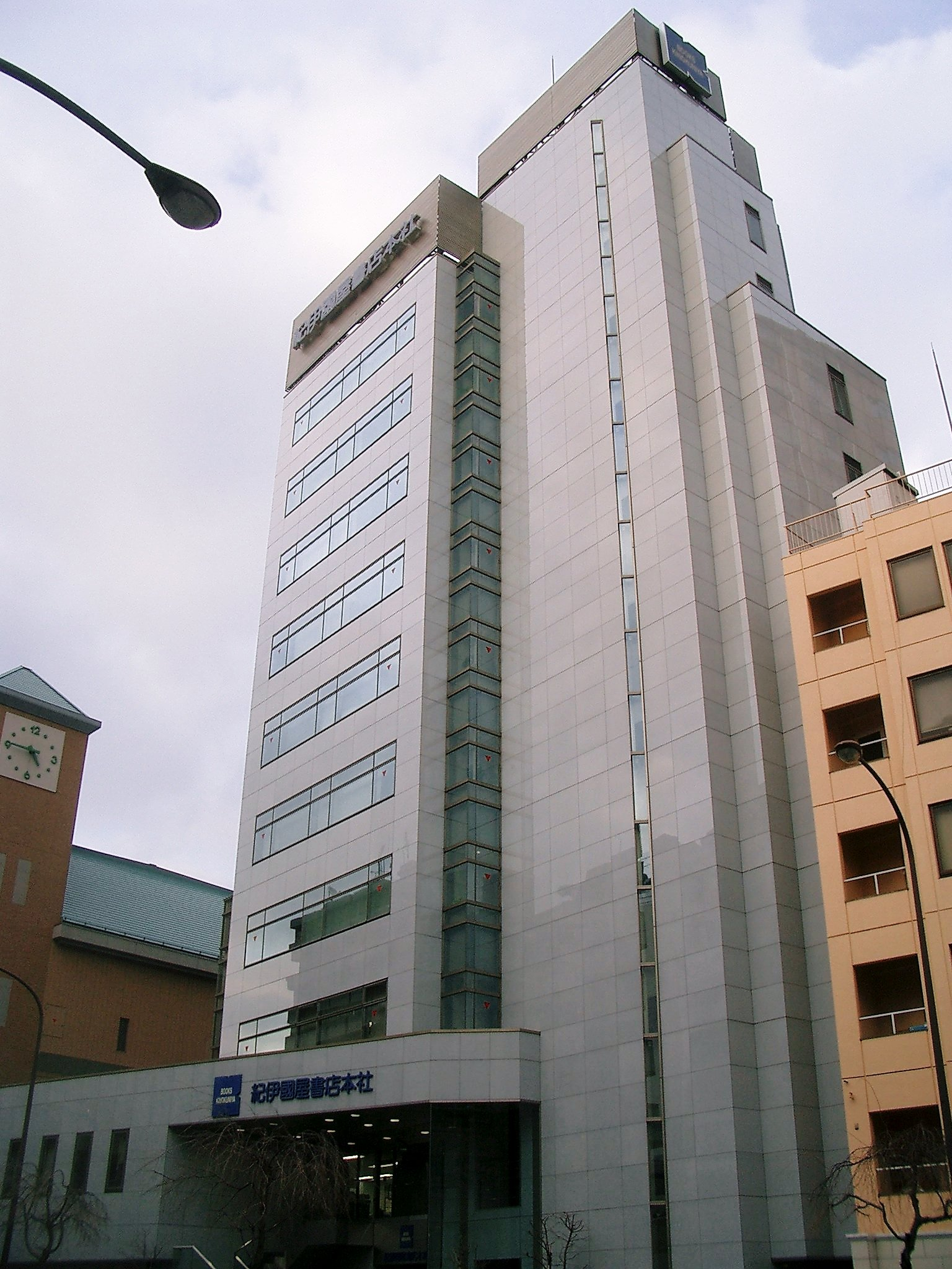 the main office of Books Kinokuniya (紀伊國屋書店) located near Ebisu (恵比寿)